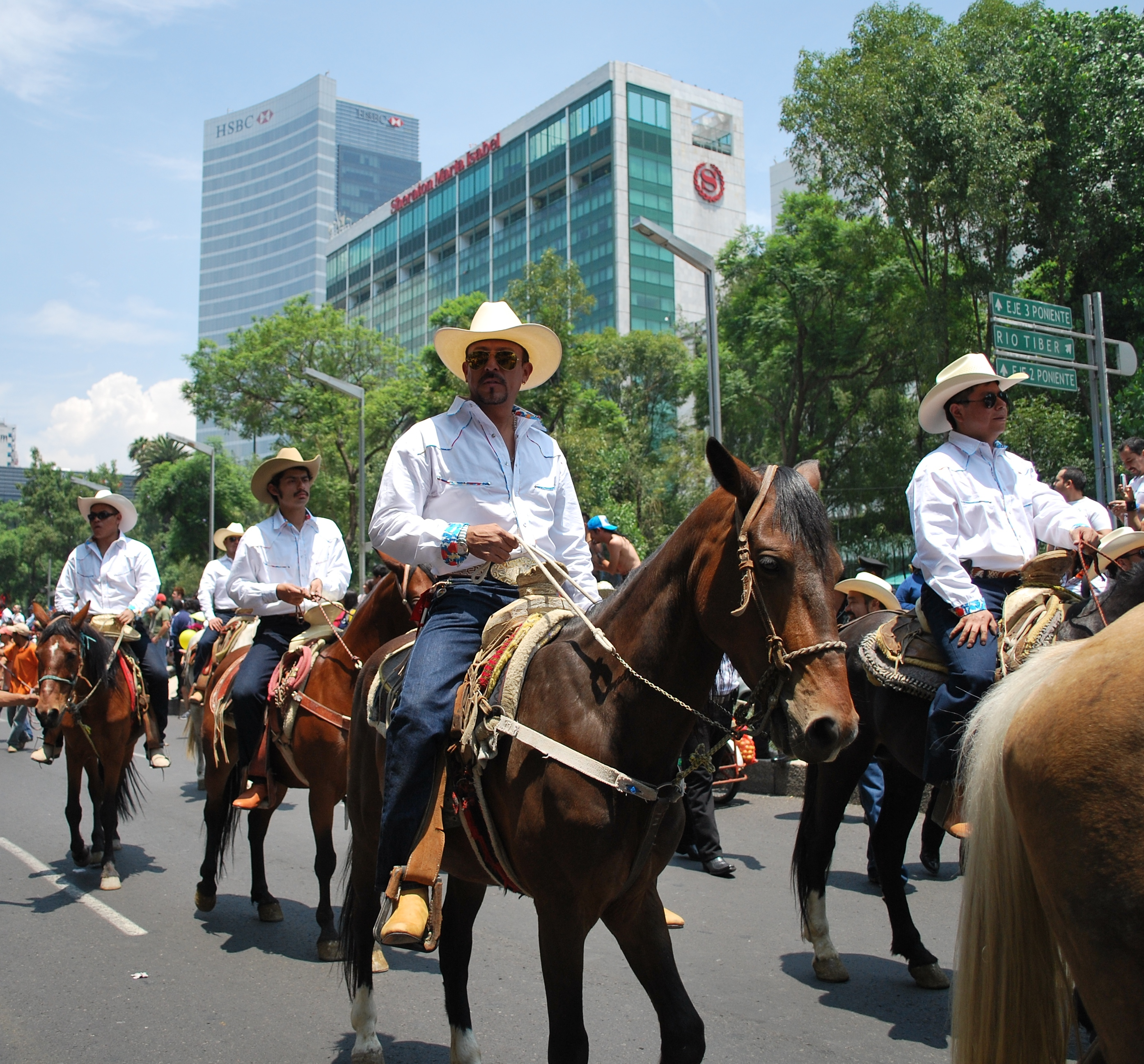 Participants in the 2012 Marcha Gay in Mexico City